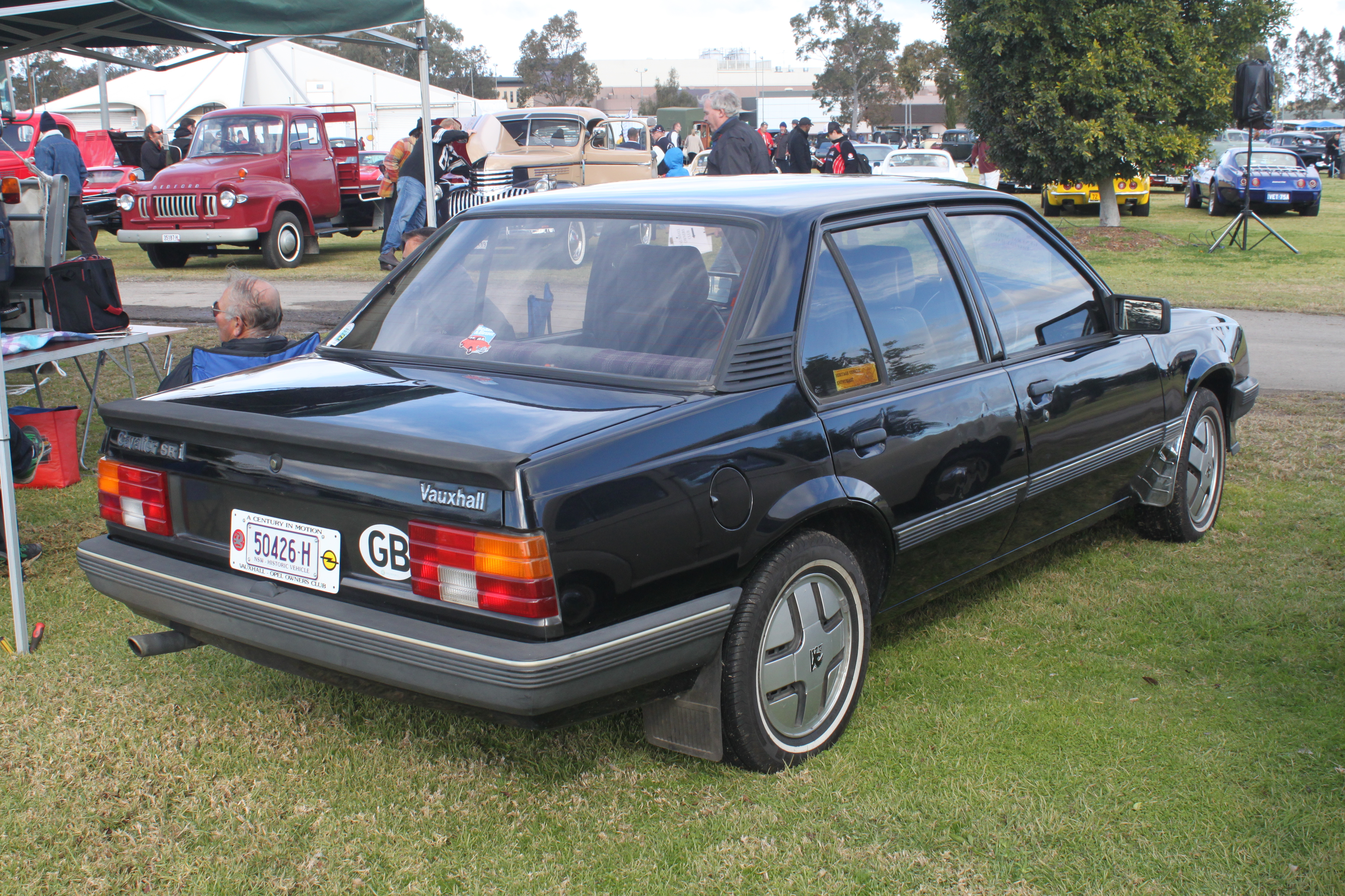 GM Display Day, Penrith Panthers, NSW July 2015